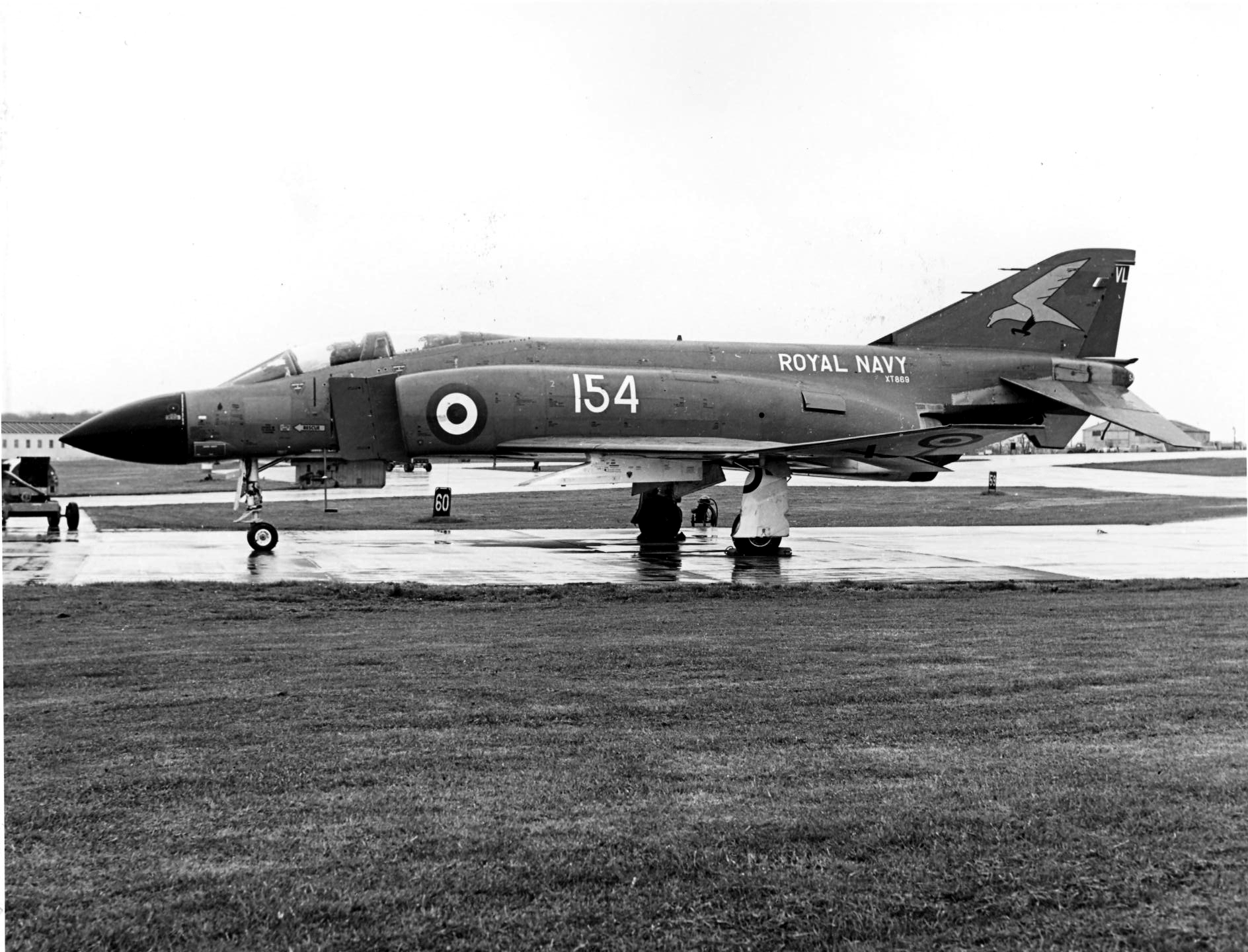 A Royal Navy McDonnell Phantom FG.1 of 767 Naval Air Squadron. This appears to be serial XT869 which was written off on 15 October 1973.